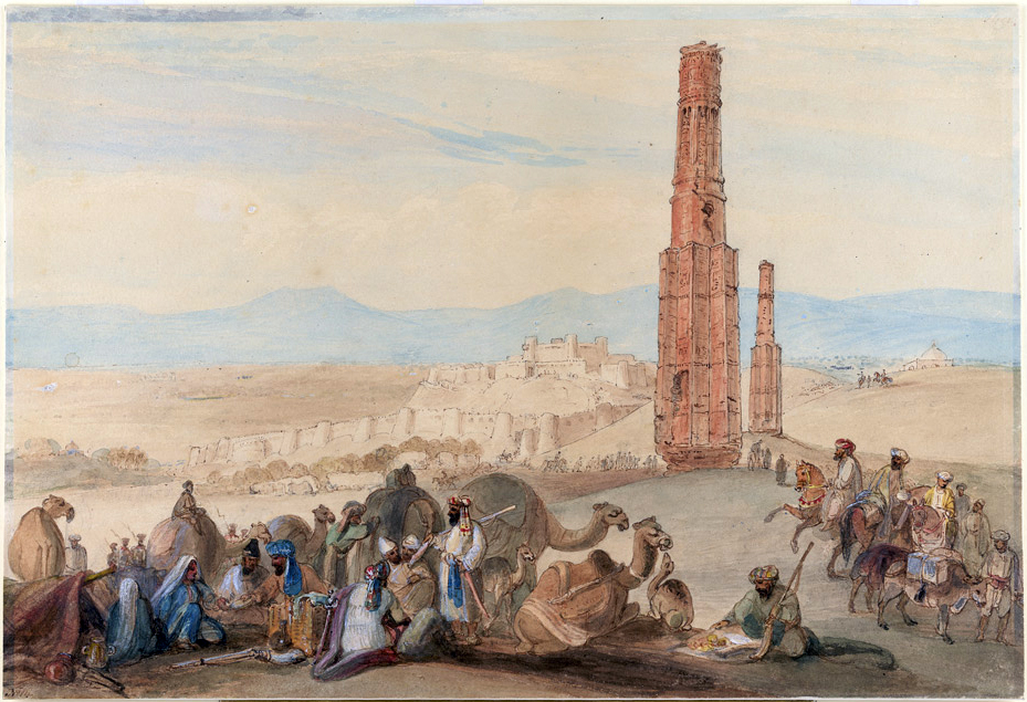 The fortress and citadel of Ghazni (Afghanistan) and the two Minars, a painting by James Atkinson, c.1839* (BL); the minars were constructed by Bahram Shah (early 1100's)